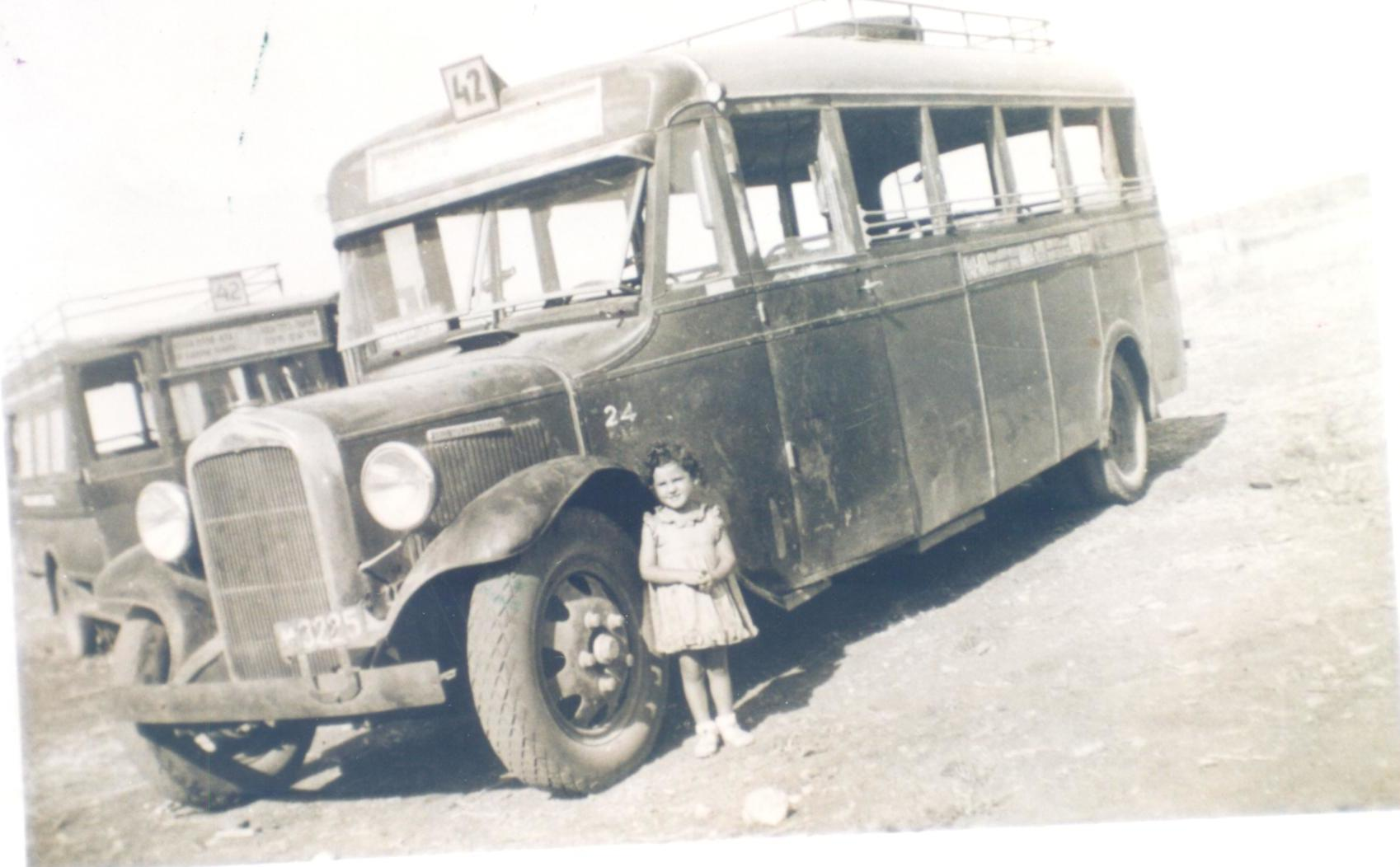 Transport in Israel